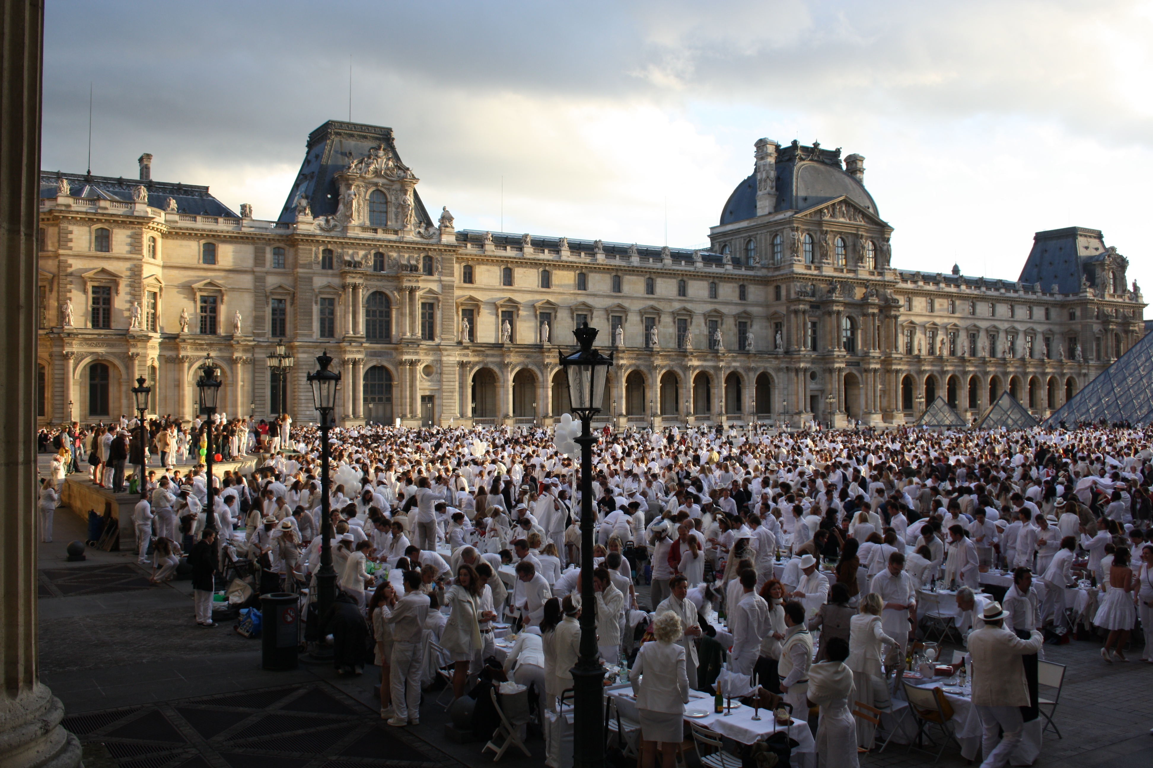 The exclusive White Dinner, organized in the Cour Napoléon of the Louvre in 2013.